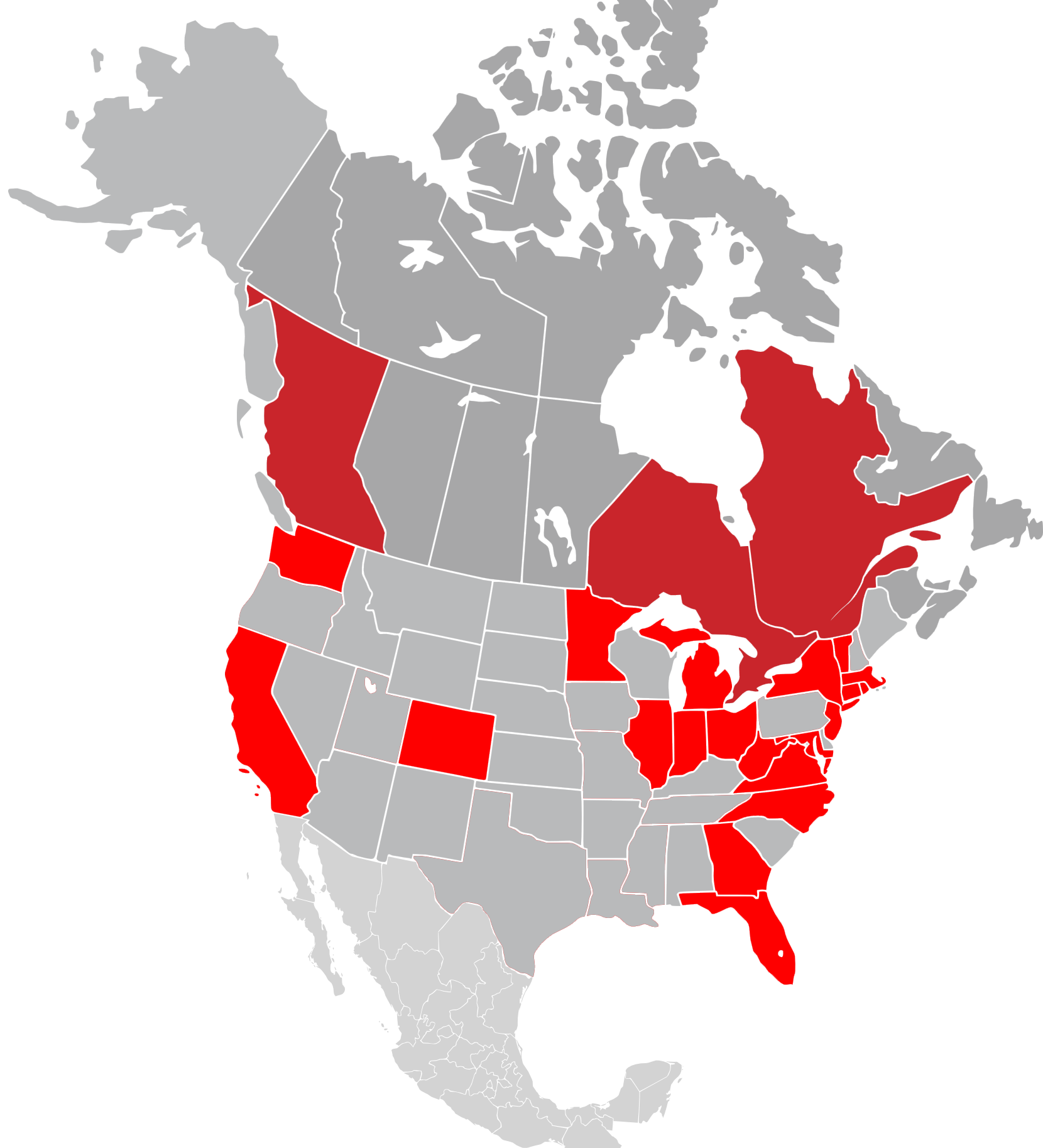 Map showing locations of the USL W-League in the USA and Canada